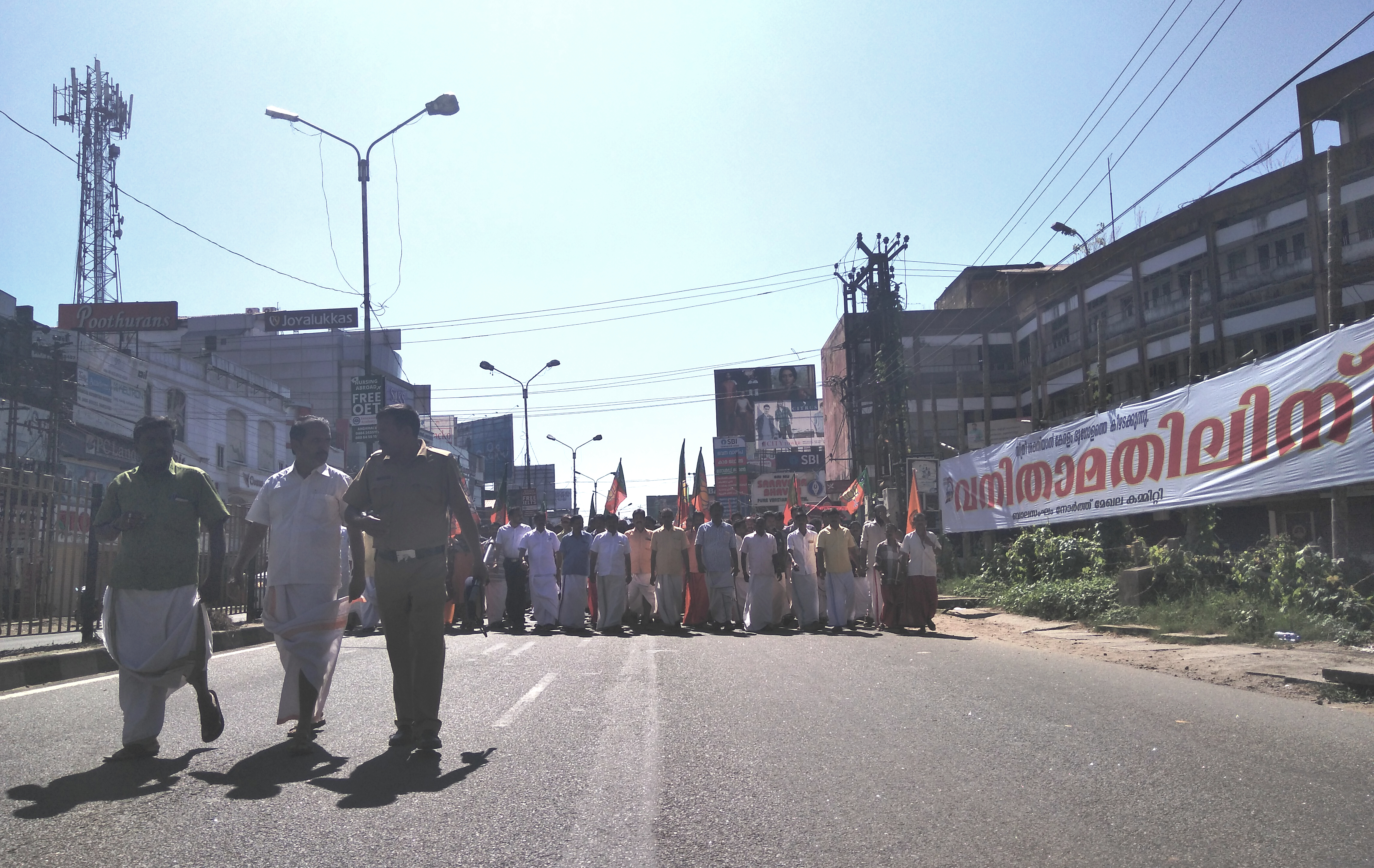 BJP Harthal Protesting against Sabarimala Women Entry at Angamaly